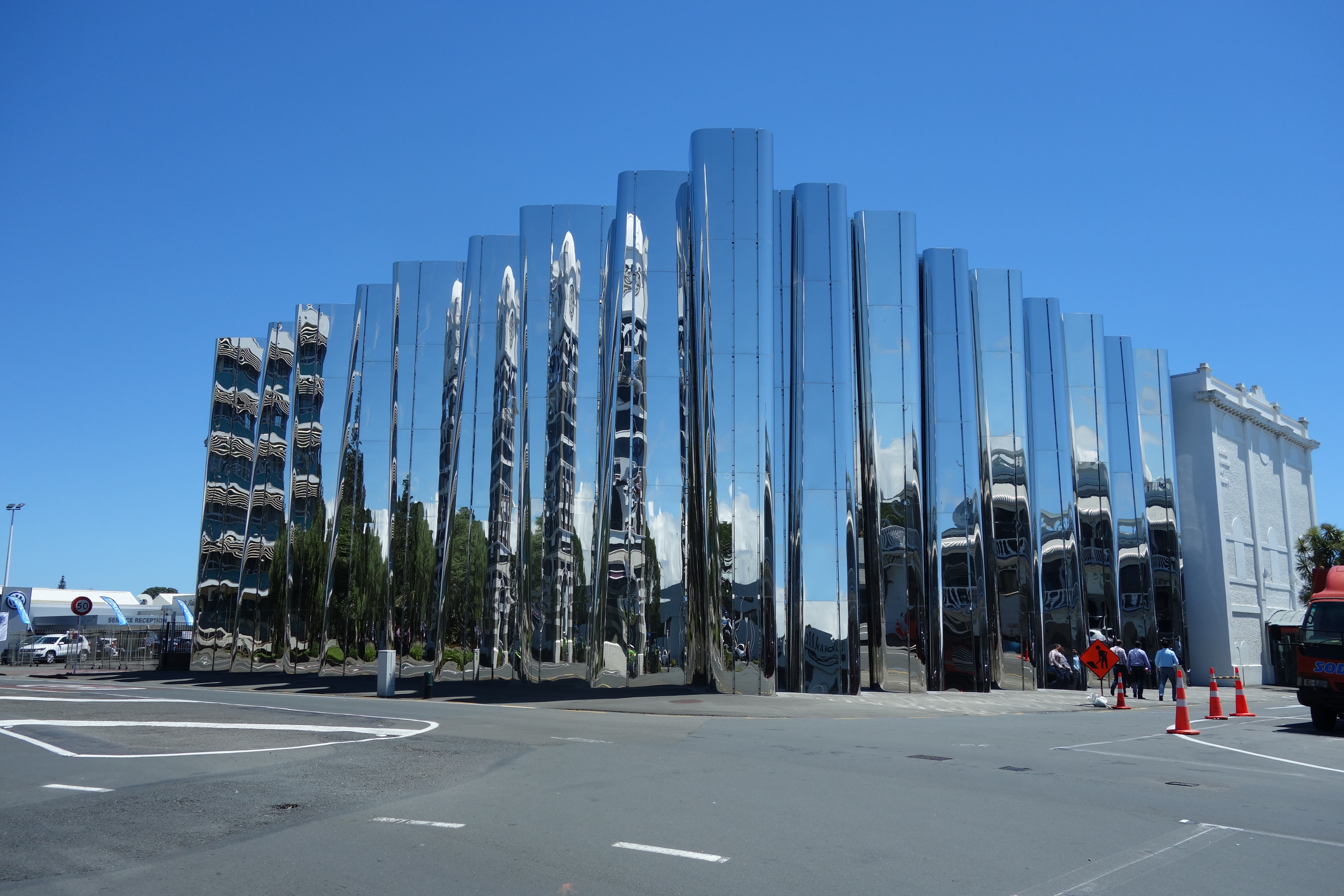 Len Lye Centre in November 2018